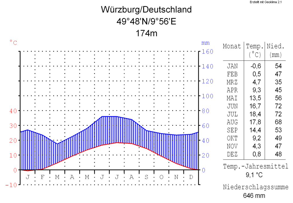 climate chart in the format by Walther and Lieth, metric, °Celsisus and millimeters, made with Geoklima 2.1